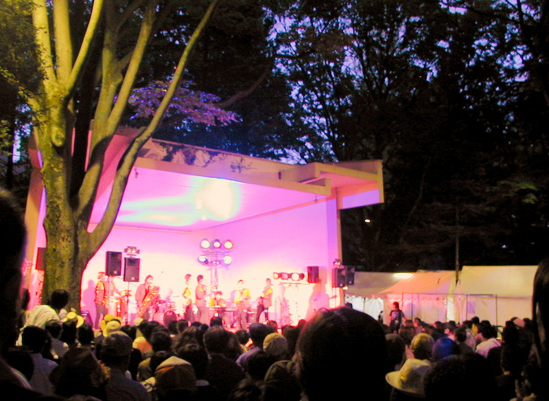 "Jozenji Streetjazz Festival in SENDAI". Kotodai-Koen Park